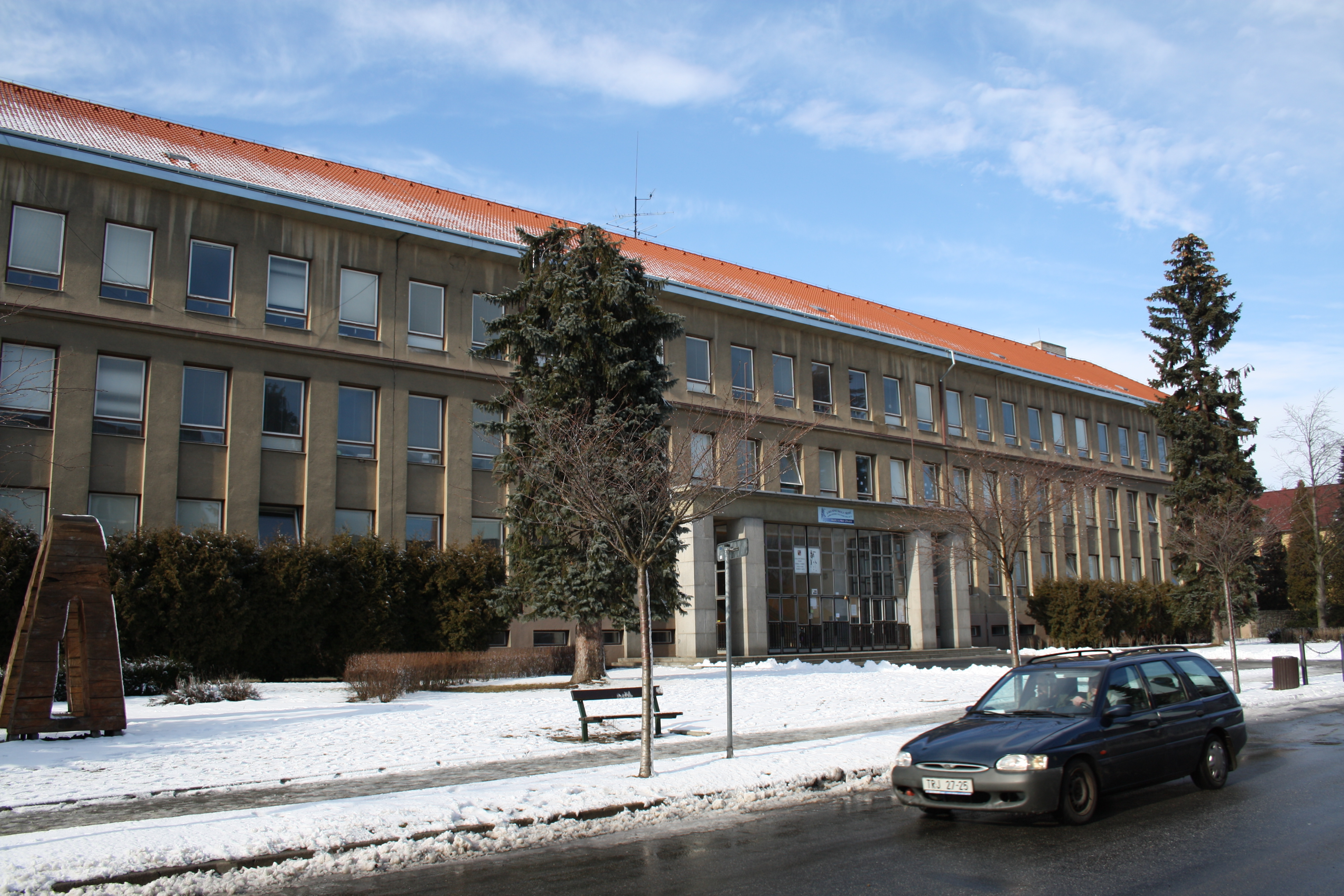 Building of elementary school Václav's Square Třebíč, Horka-Domky.